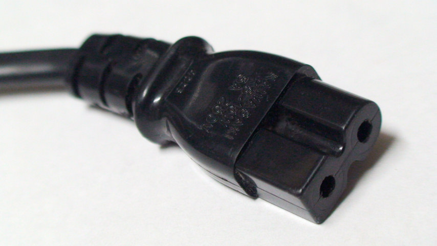 IEC60320 Polarised C7 Plug.